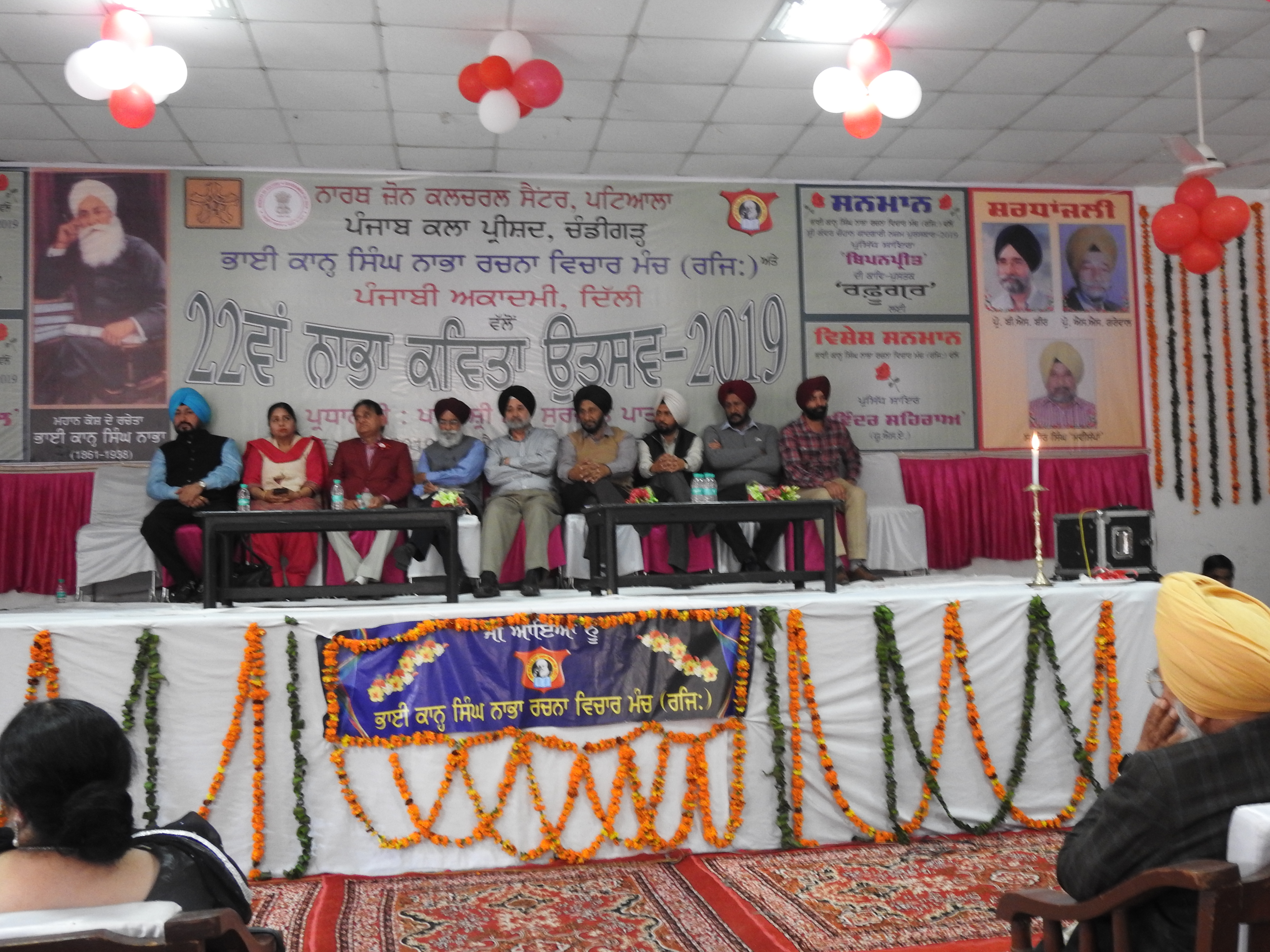 Nabha Kavita Utsav is an annual festival celebrated at Nabha town near Patiala by Nabha Vichar Manch, a literary organisation in association with few other like minded organisations.The festival celebrated in 2019 was 22th in series.